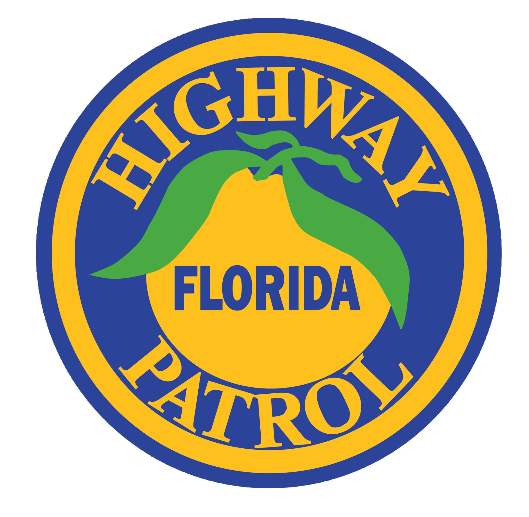 Florida Highway Patrol (official) color digital patch with transparent background